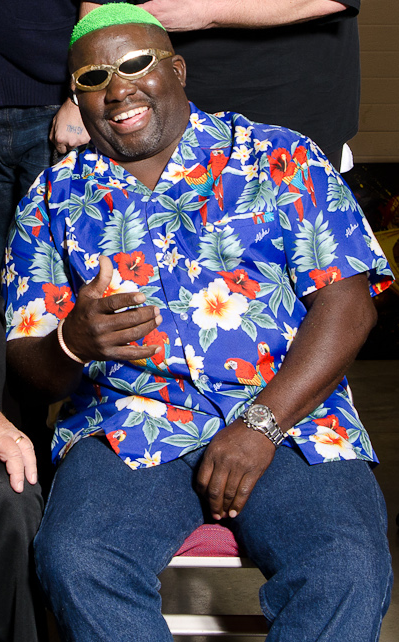 Pic of Koko B. Ware taken on October 8th in Allentown by me at the Hulk Hogan & friends event.